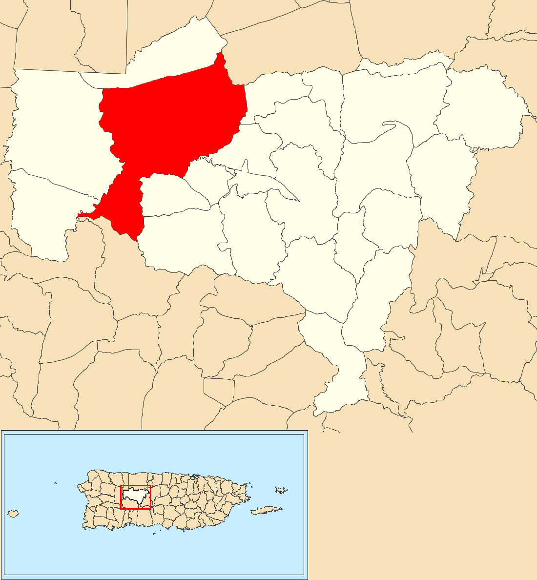 Caguana, Utuado, Puerto Rico locator map scale is 102,000